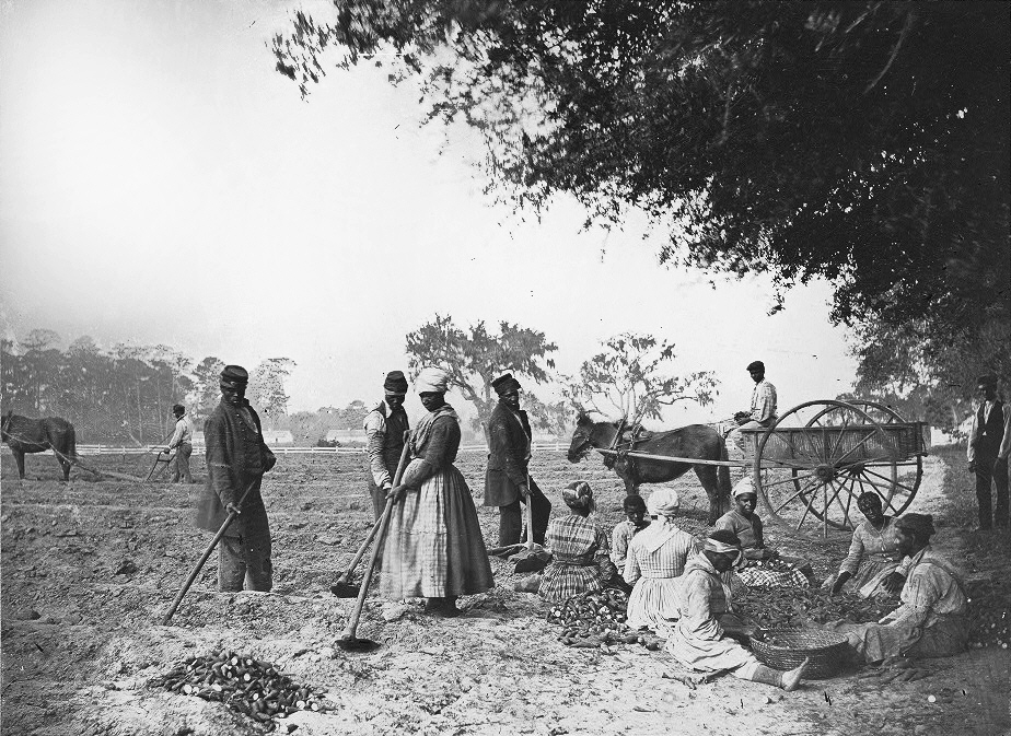 James Hopkinson's Plantation. Planting sweet potatoes. African American men and women hoe and plow the earth while others cut piles of sweet potatoes for planting. One man sits in a horse-drawn cart.